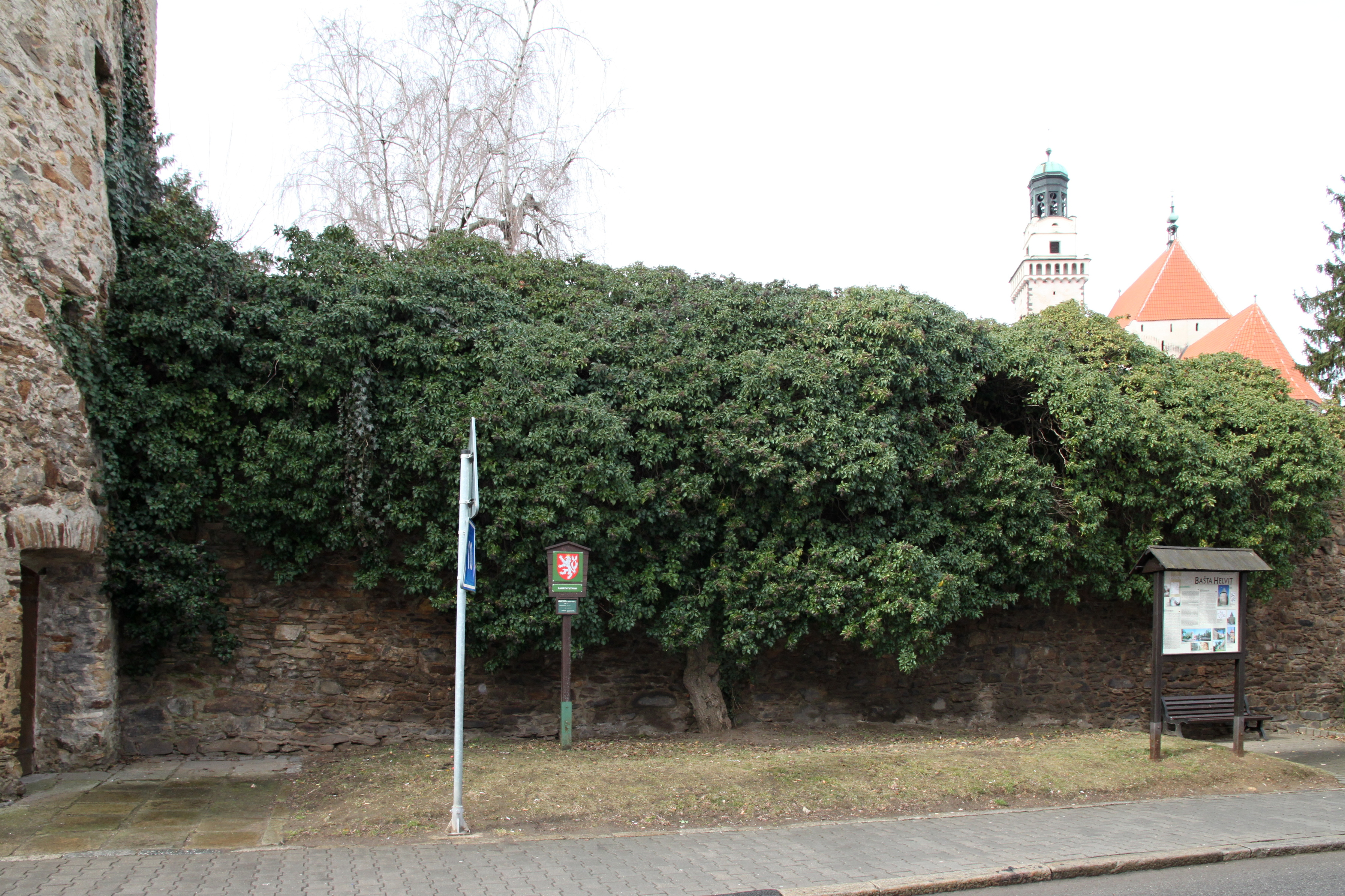 Educational trail Prachatické hradby (Municipal fortifications), stop No. 2, Prachatický břečťan – Hedera helix – famous tree. Prachatice, South Bohemian Region, Czechia.